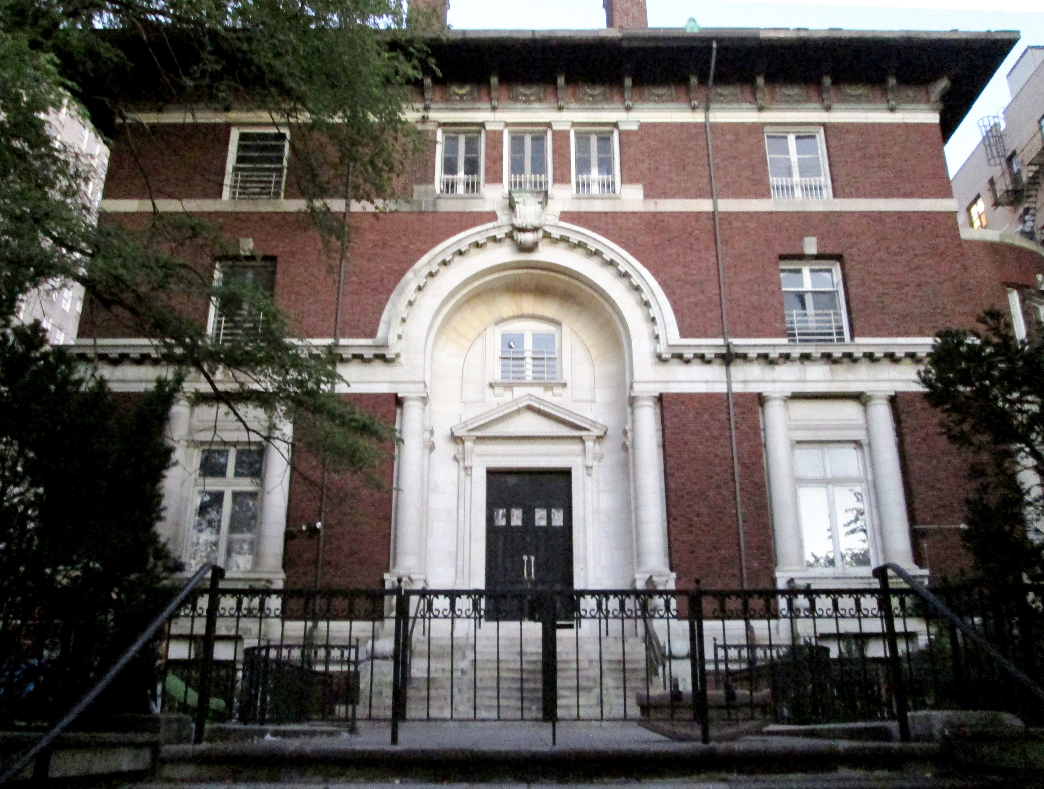 The Isaac L. and Julia B. Rice House. now Yeshiva Ketana of Manhattan, and formerly the Solomon Schinasi House, at 349 West 89th Street and Riverside Drive in the Upper West Side of Manhattan, was built in 1901-03 and was designed by Herts & Tallant with additions in 1908 by C.P.H. Gilbert. It is one of only two free-standing mansions extant on Riverside Drive (the other was owned by Schinasi's bother, Morris.) Isaac Rice was a lawyer, writer and chess expert and his wife Julia was a physician - called the house "Villa Julia". Herts & Tallant specialized in designing theatres. The house is Georgian and Beaux Arts in style. Gilbert's alteration for Schinasi, the second owner, did not significantly alter the design. The house in a New York City landmark, designated in 1980. The image shows the Riverside Drive facade. (Sources: AIA Guide to NYC (Fifth Edition) and Guide to NYC Landmarks (Fourth edition))